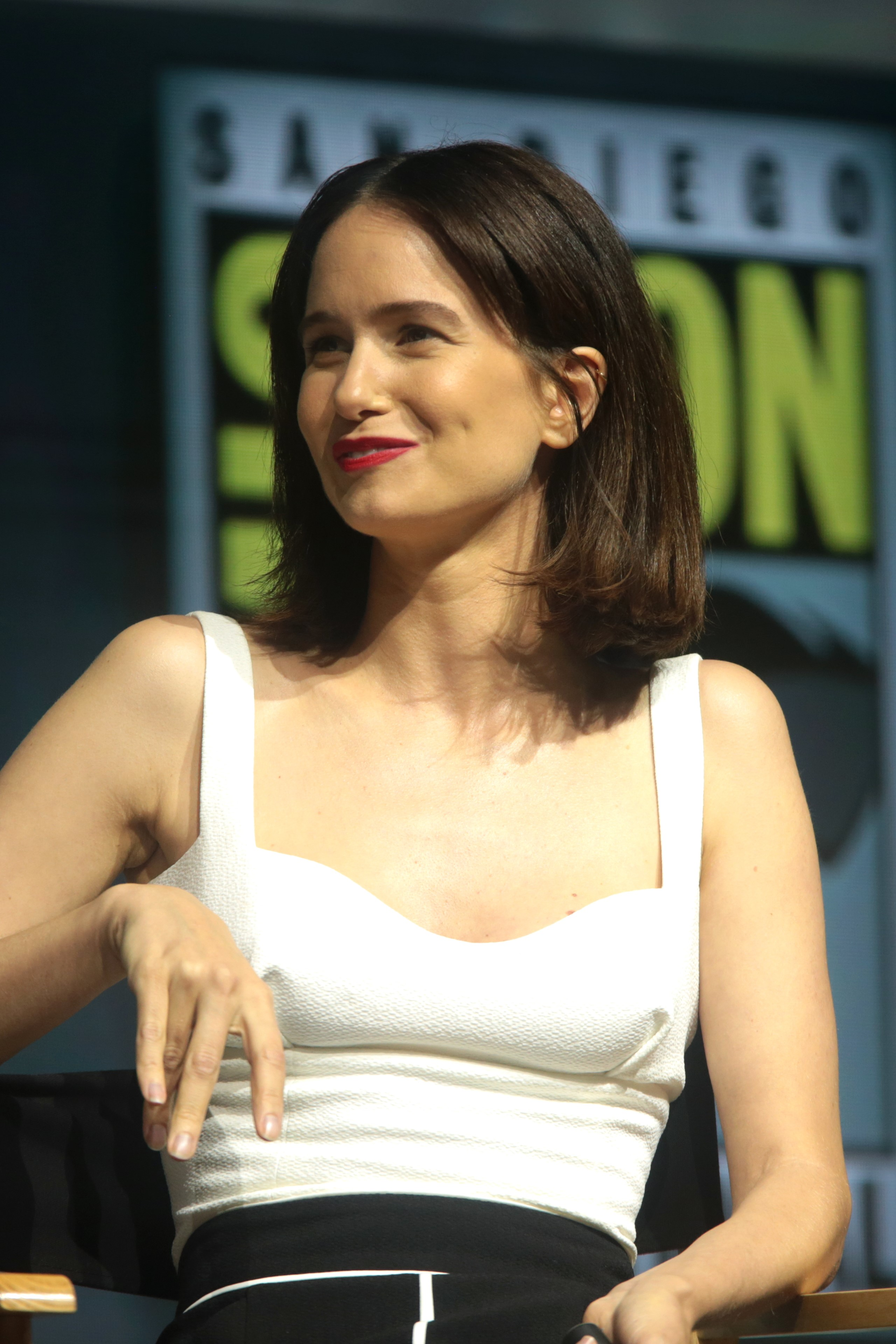 Katherine Waterston speaking at the 2018 San Diego Comic Con International, for "Fantastic Beasts: The Crimes of Grindelwald", at the San Diego Convention Center in San Diego, California.